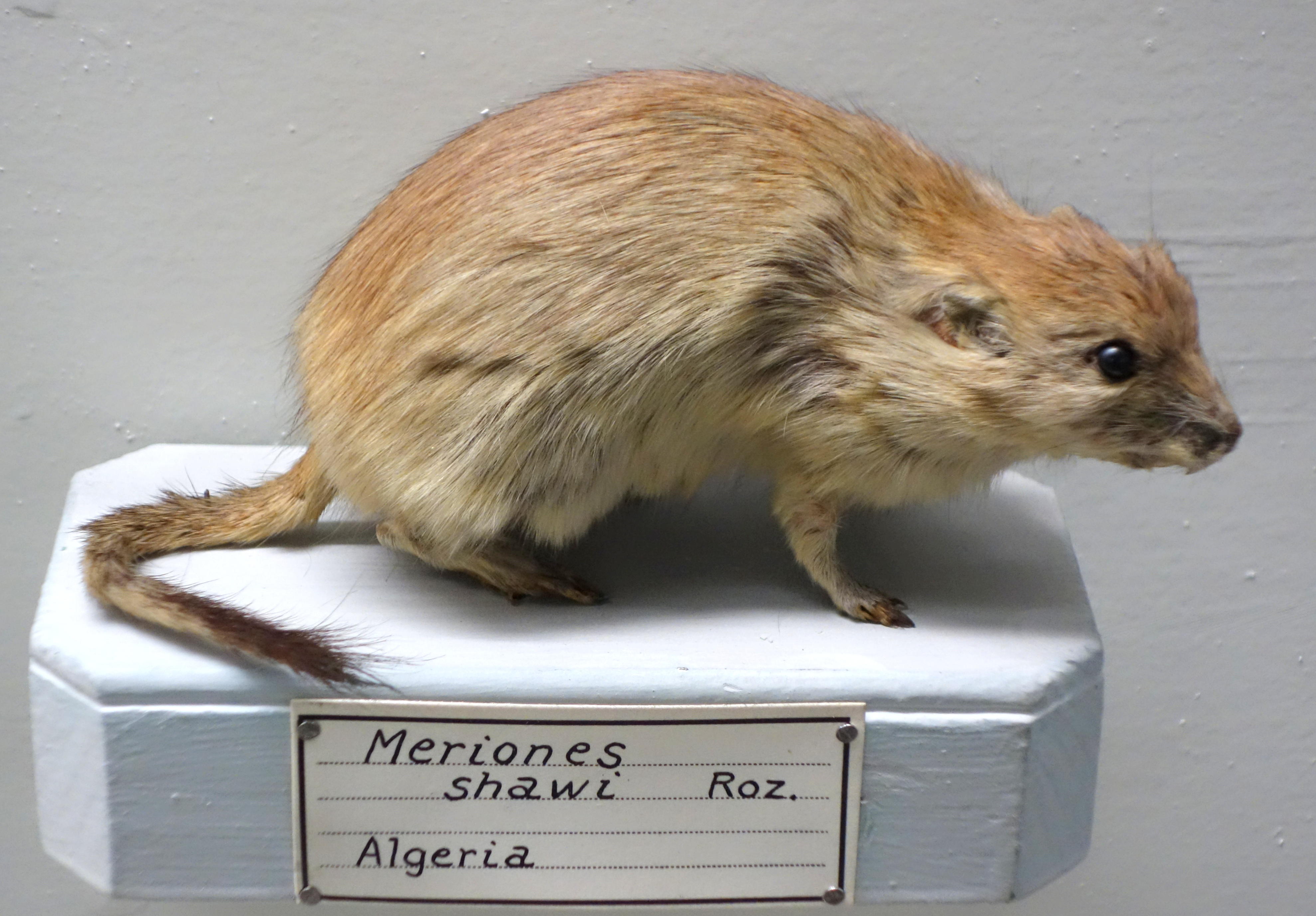 Exhibit in the Museo Civico di Storia Naturale di Genova, Via Brigata Liguria, 9, 16121, Genoa, Italy.